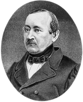 Joseph Bodjanski